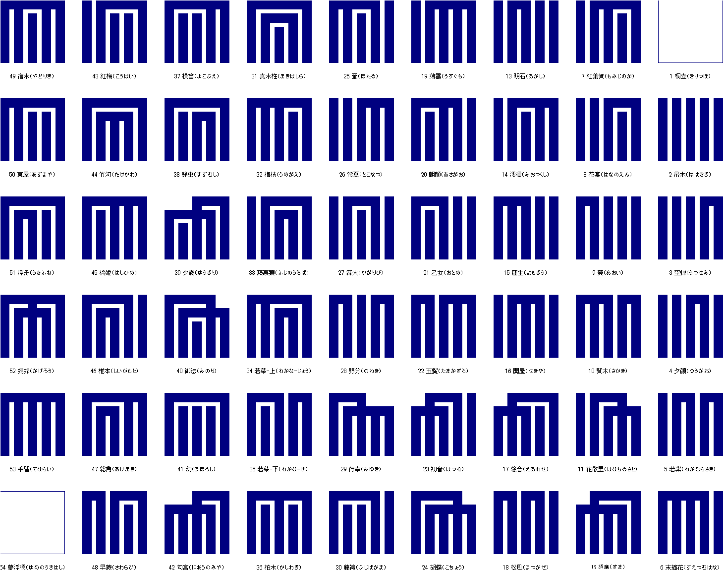 The "Genji-mon" (源氏紋) or "Genji-Kô" (源氏香) symbols used for the 54 chapters of the Tale of Genji (early Japanese "novel"). They indicate the possible groupings of five elements. Note that the image reads from top-to-bottom along columns, and then from right-to-left from one column to another, so that the start point is at upper right. This shows the symbols used in incense-distinguishing game (see Kōdō#Kumikō), where the chapter 1 symbol takes the place of the chapter 35 symbol, while the chapter 54 symbol is dropped, so that 52 symbols remain (52 is a Bell number).